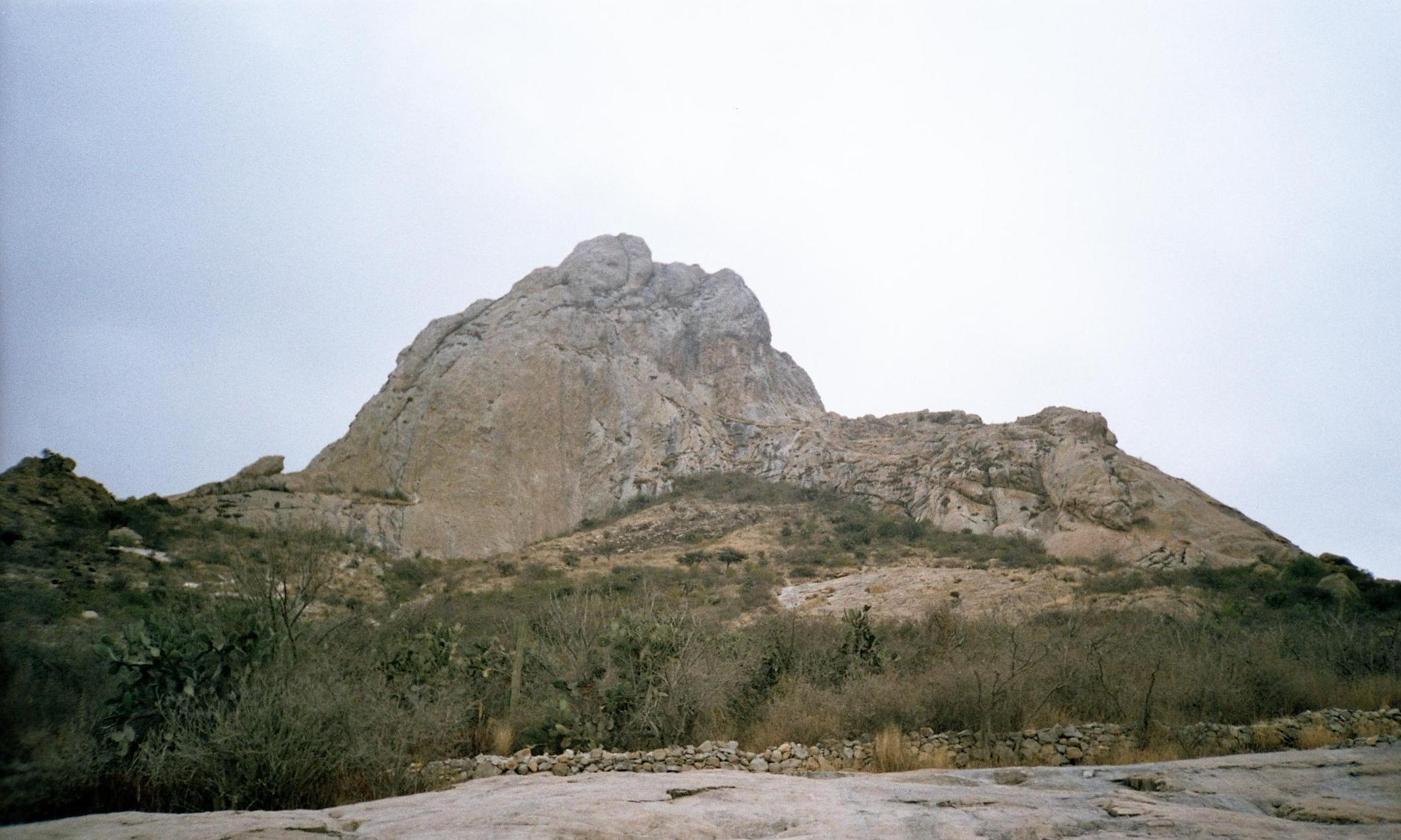 Rocky Peak "Bernal" Queretaro, Mexico. Picture taken by me in 2005.